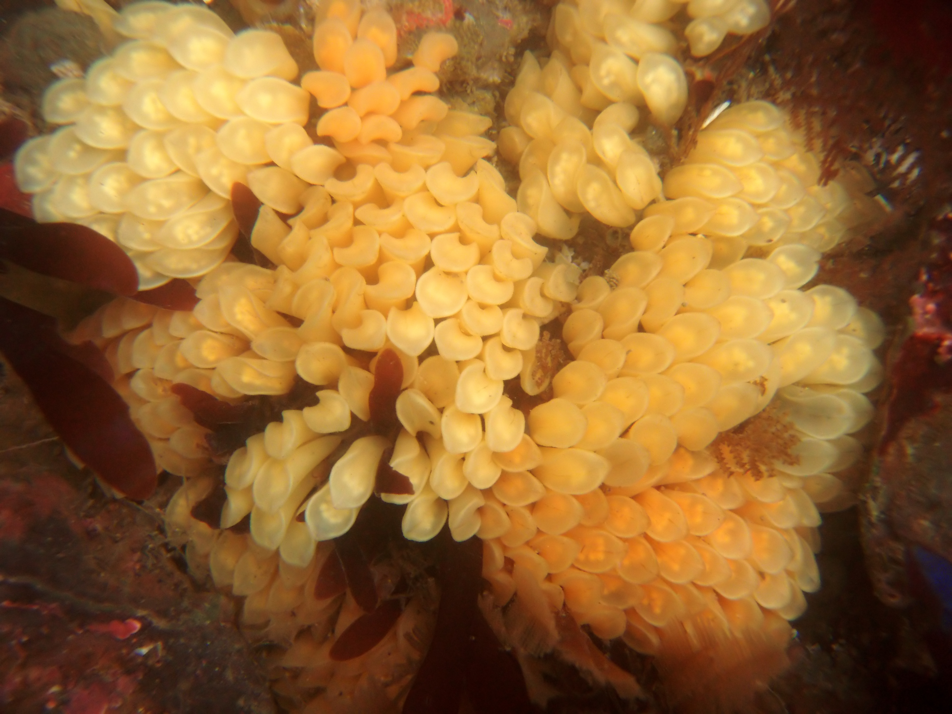 Egg capsules from Kelleti's whelk(?),Pteropurpura trialata ; the little whitish blobs inside each one are the eggs